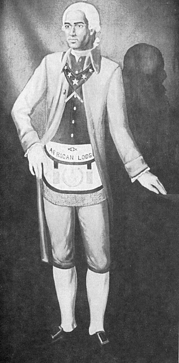 Portrait of Prince Hall (c.1735 – December 4, 1807).